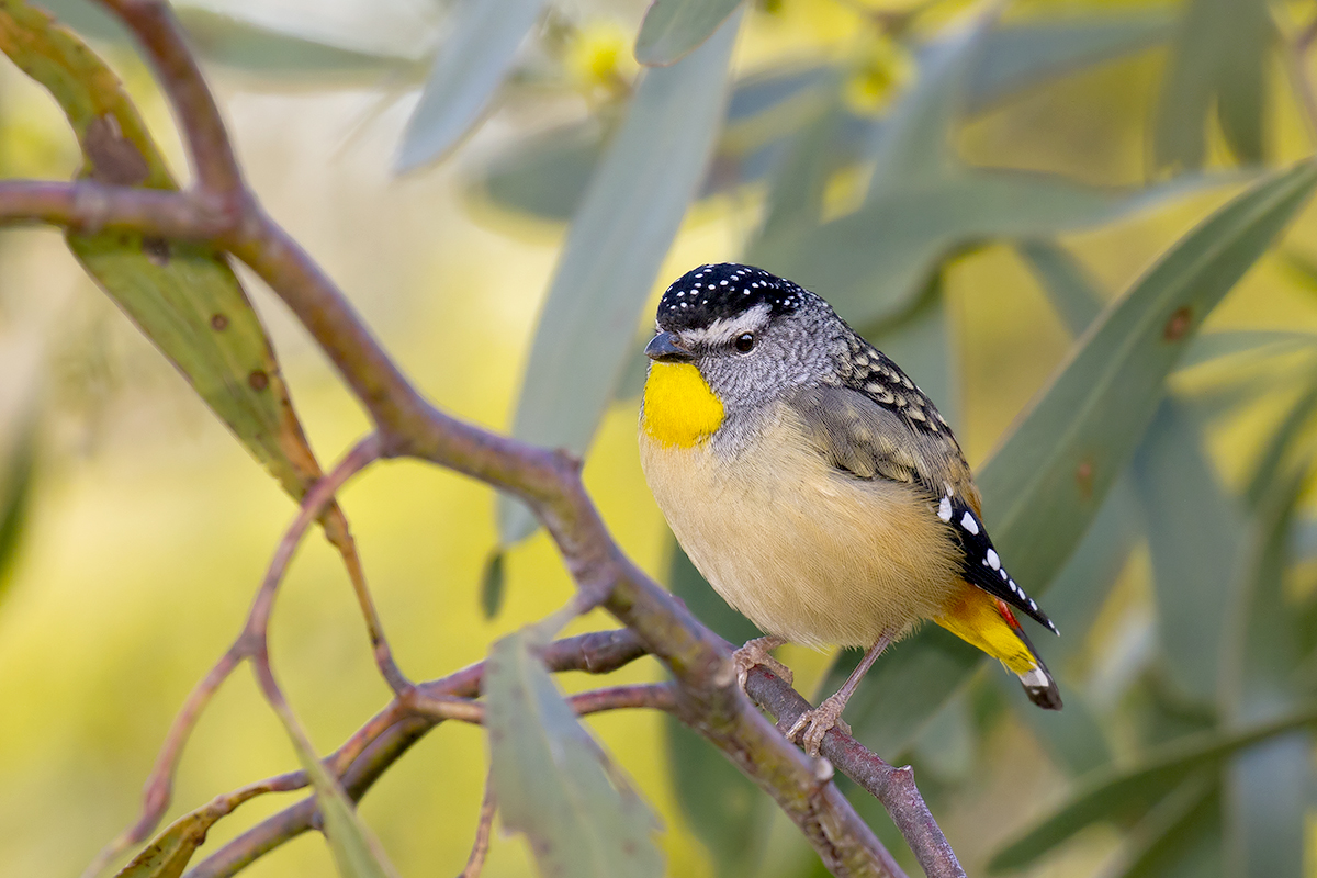 Strangways Vic.